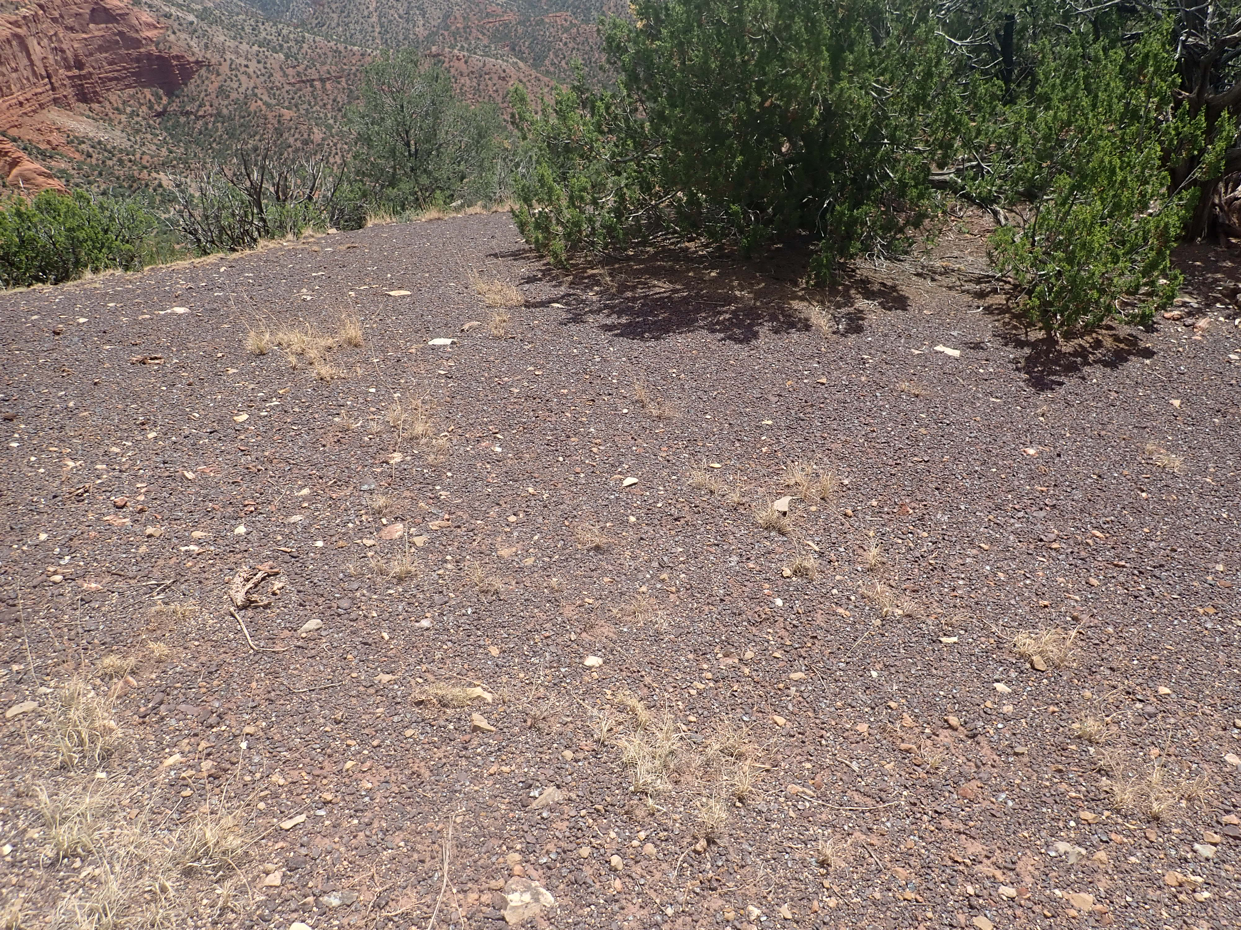 This image shows exposures of the Log Springs Formation at Guadelupe Box, New Mexico, USA. This formation consists of ferruginous red beds and is interpreted as a terra rossa that developed atop the Mississippian Arroyo Penasco Group. It contains no fossils but is thought to straddle the Mississippian-Pennsylvanian time boundary.